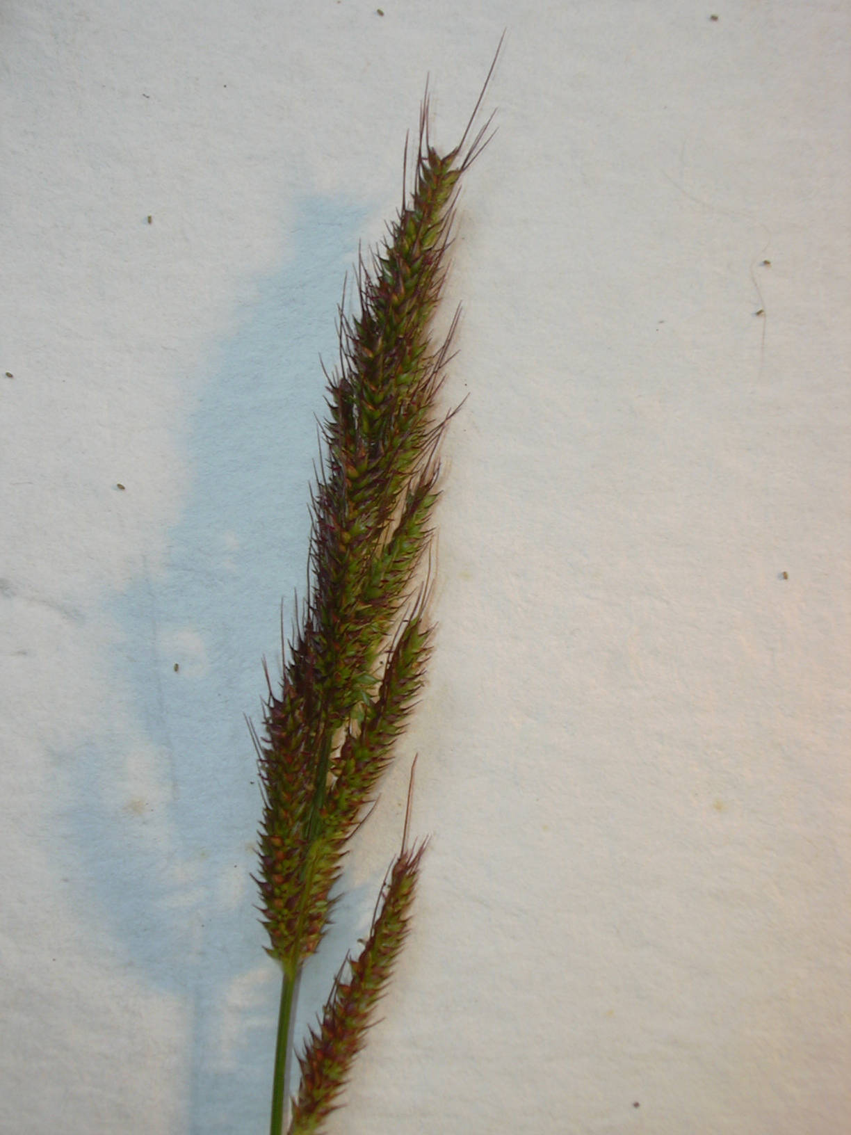 Echinochloa crus-galli (seeds). Location: Maui, Hana Hwy